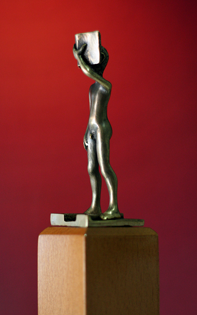 Award Statue